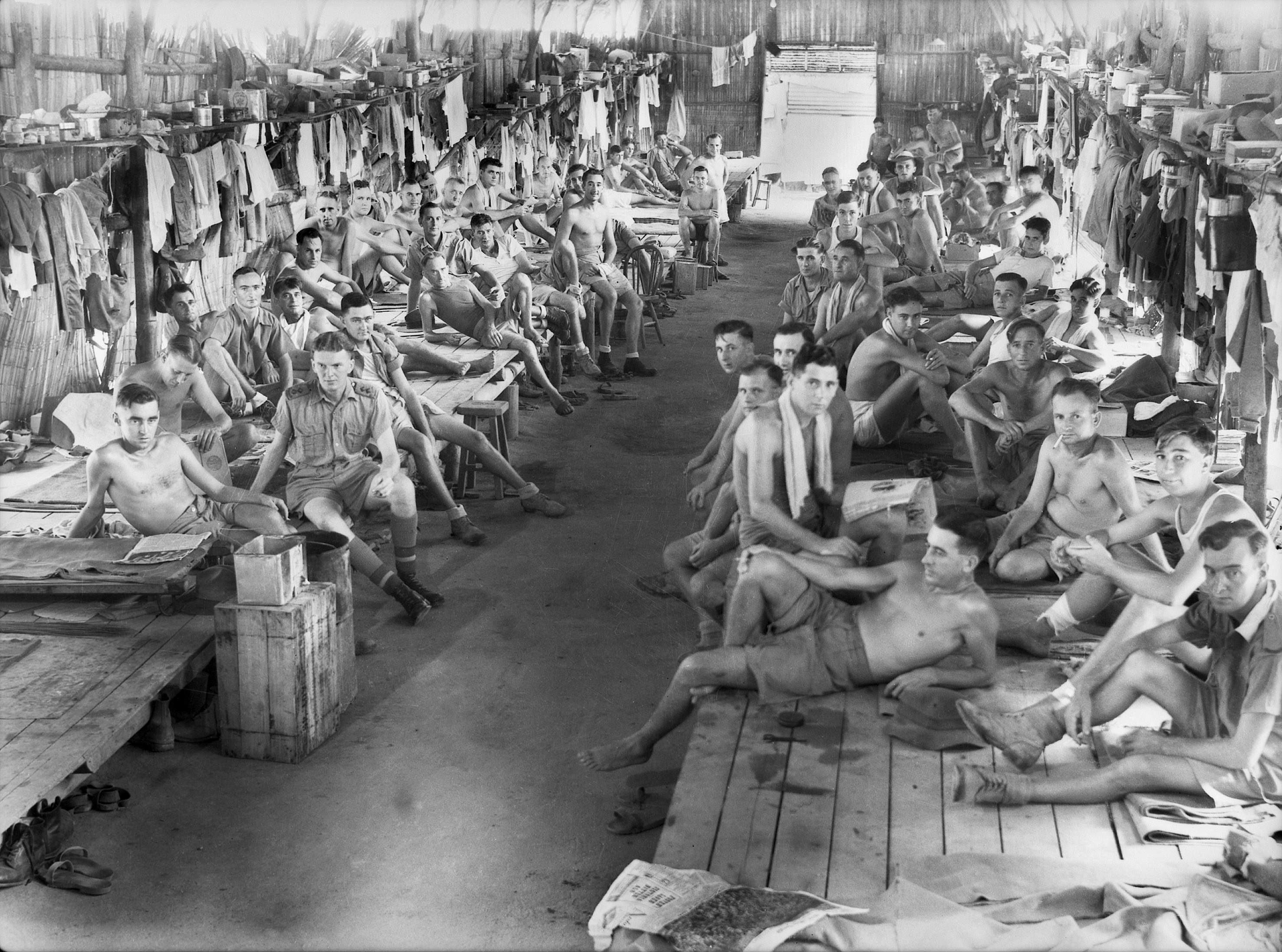 SINGAPORE, STRAITS SETTLEMENTS, 1945-09-20. PERSONNEL OF "C" COMPANY, 2/29TH AUSTRALIAN INFANTRY BATTALION, EX-PRISONERS OF WAR OF THE JAPANESE, IN THEIR HUT AT THE REAR OF CHANGI GAOL.